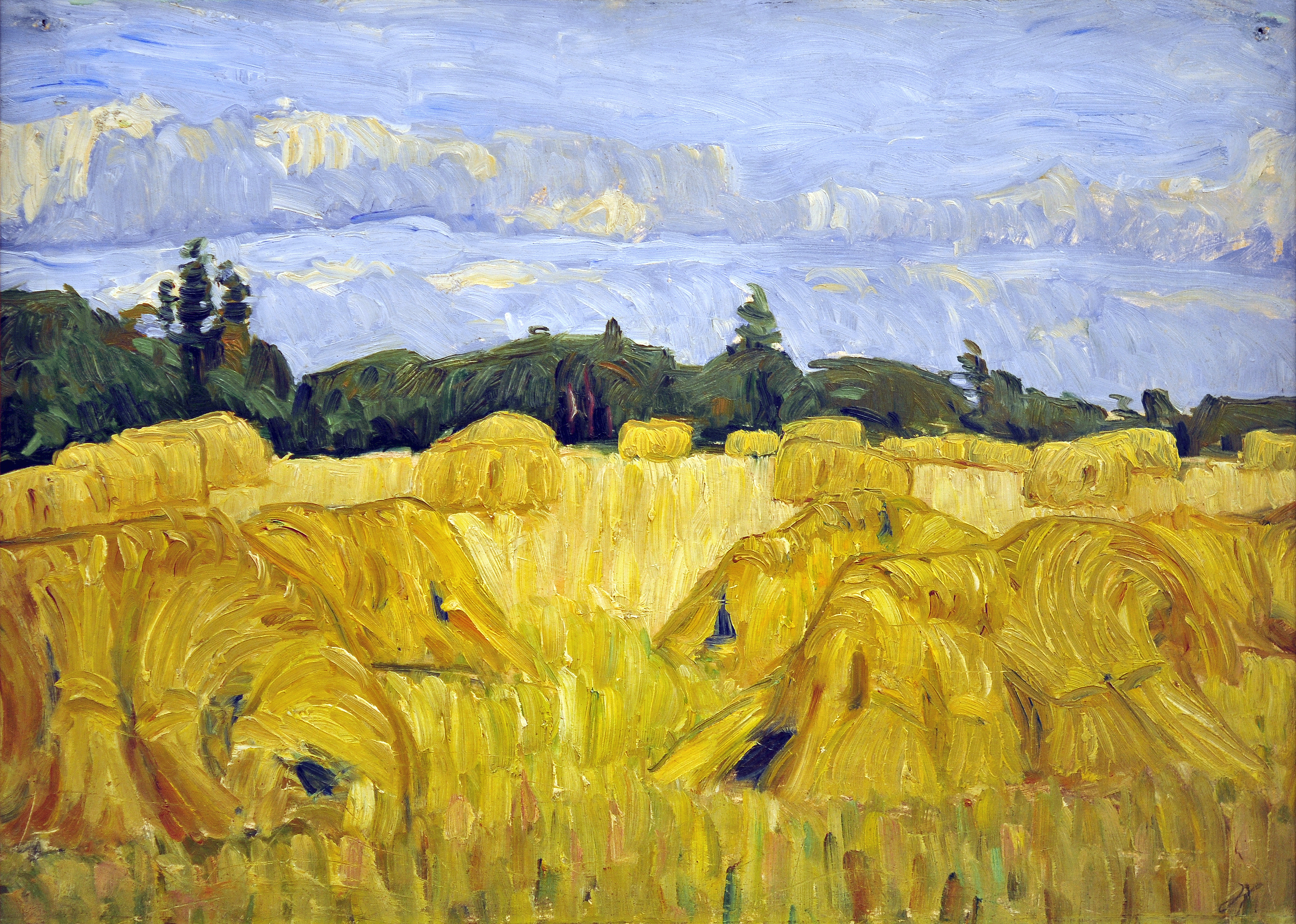 August Haake painted "Field with sheafs" over a period of 1911-1914 in Fischerhude near Bremen.